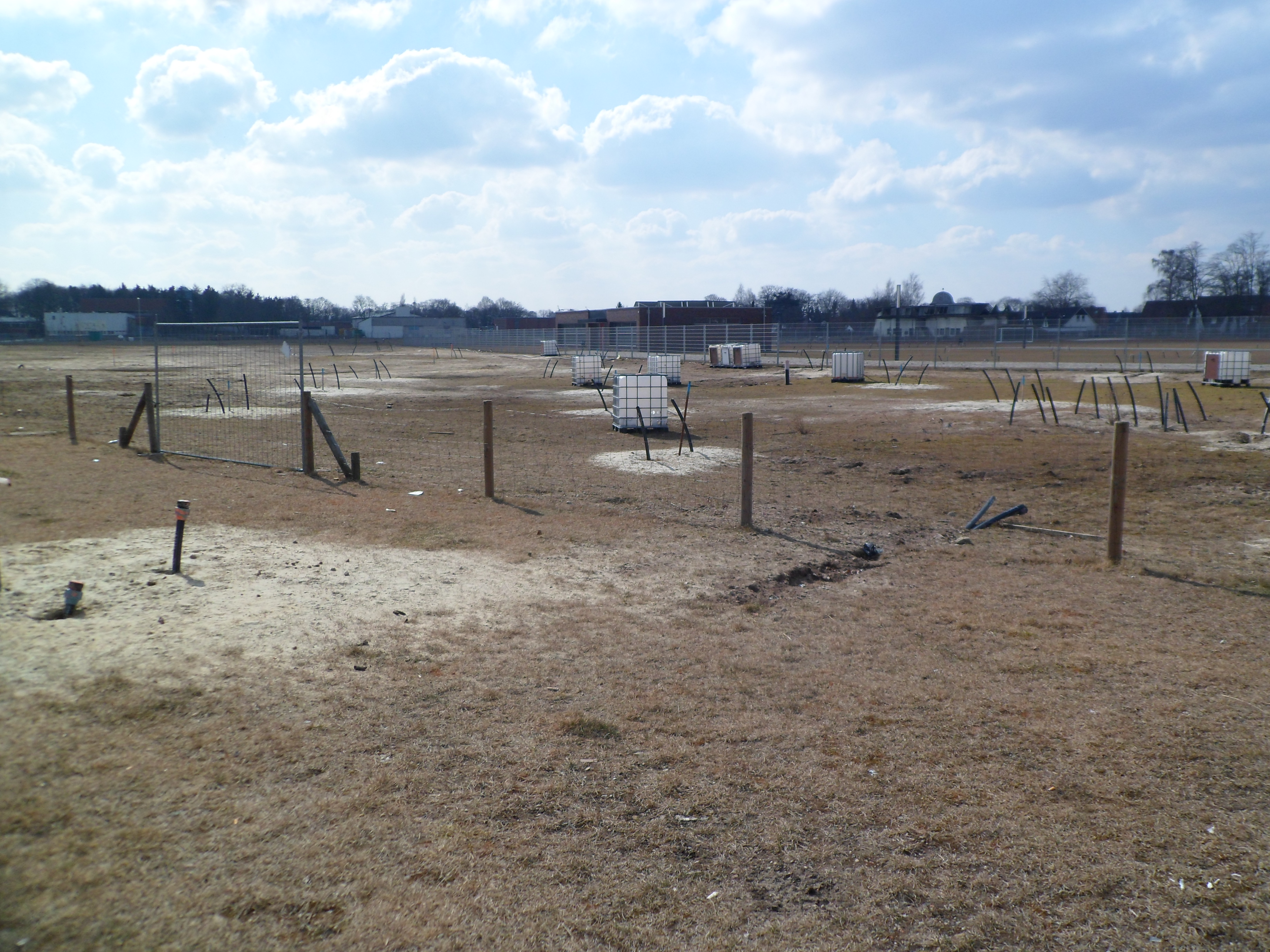 Nordhorn, Bodenaufbereitung Nino-Gelände